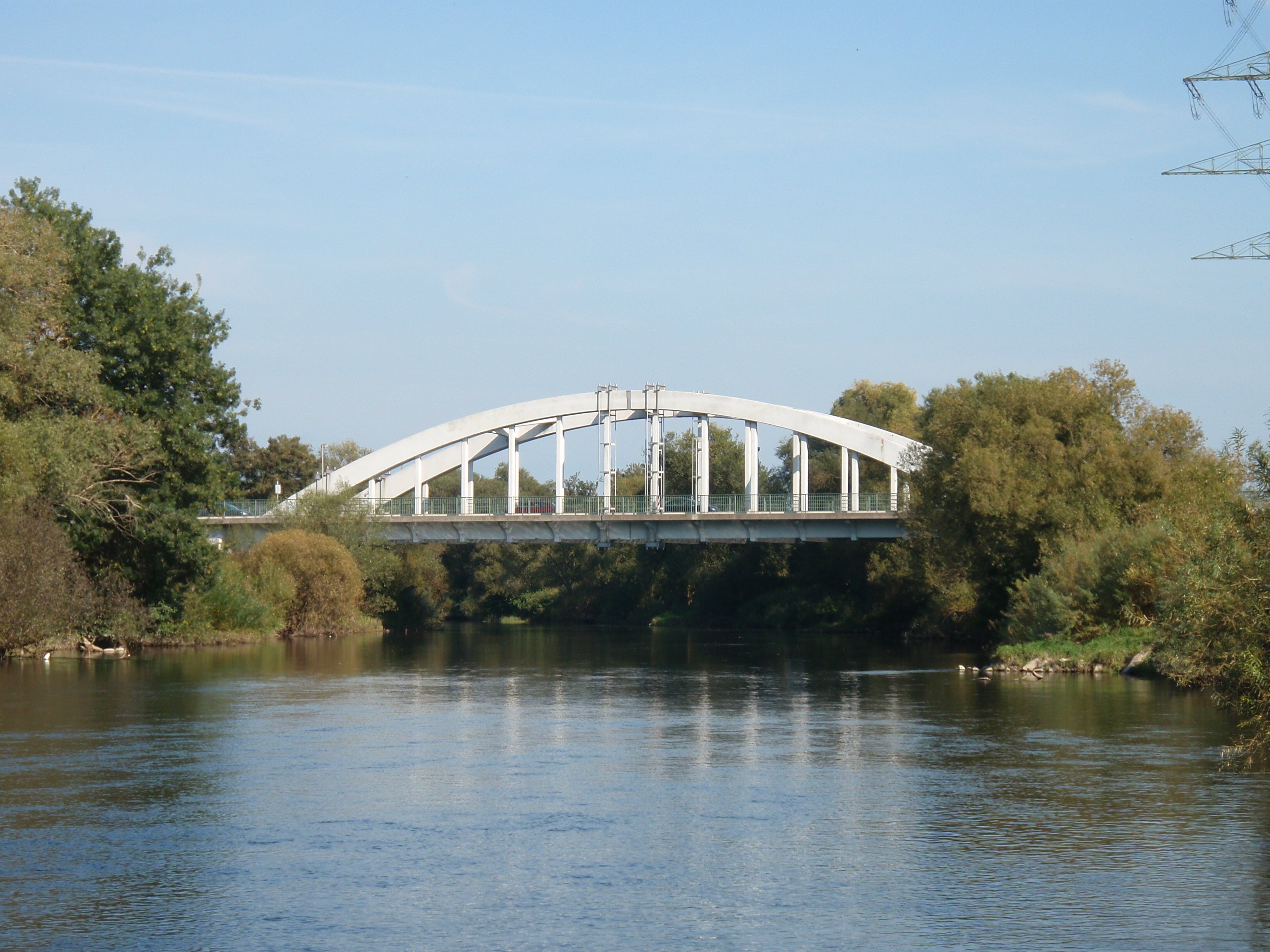 Photo of the western side of the bridge of L 143 over river Sieg between Sankt Augustin and Troisdorf, Germany.